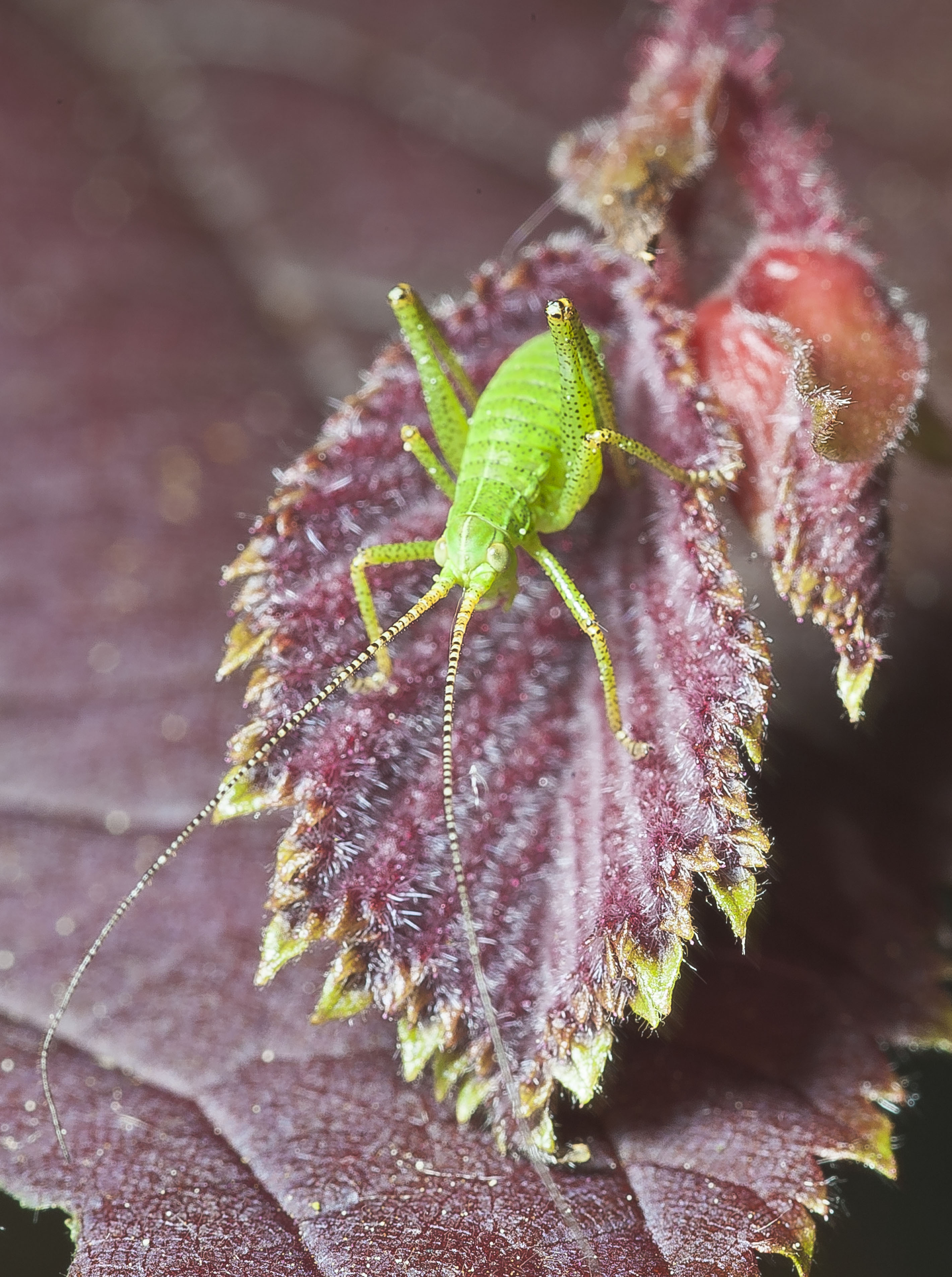 Larva of Leptophyes punctatissima, forest near Stuttgart, Germany. Thanks to the members of Entomologie.de for the identification.